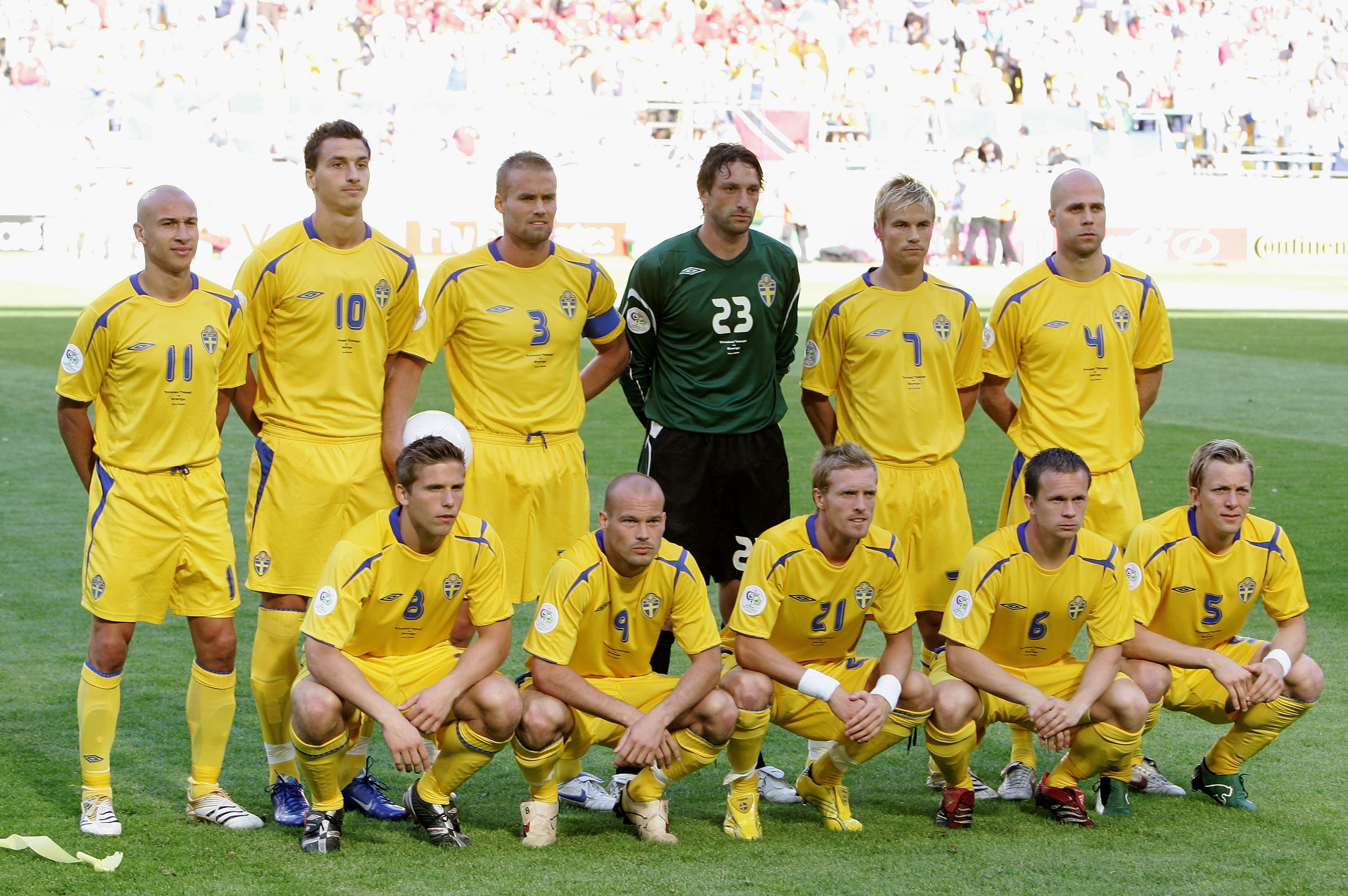 Swedish national football team at the 2006 FIFA World Cup